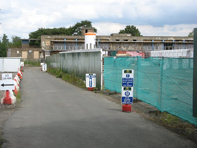 Hawkhead Hospital Former hospital now being developed for housing.